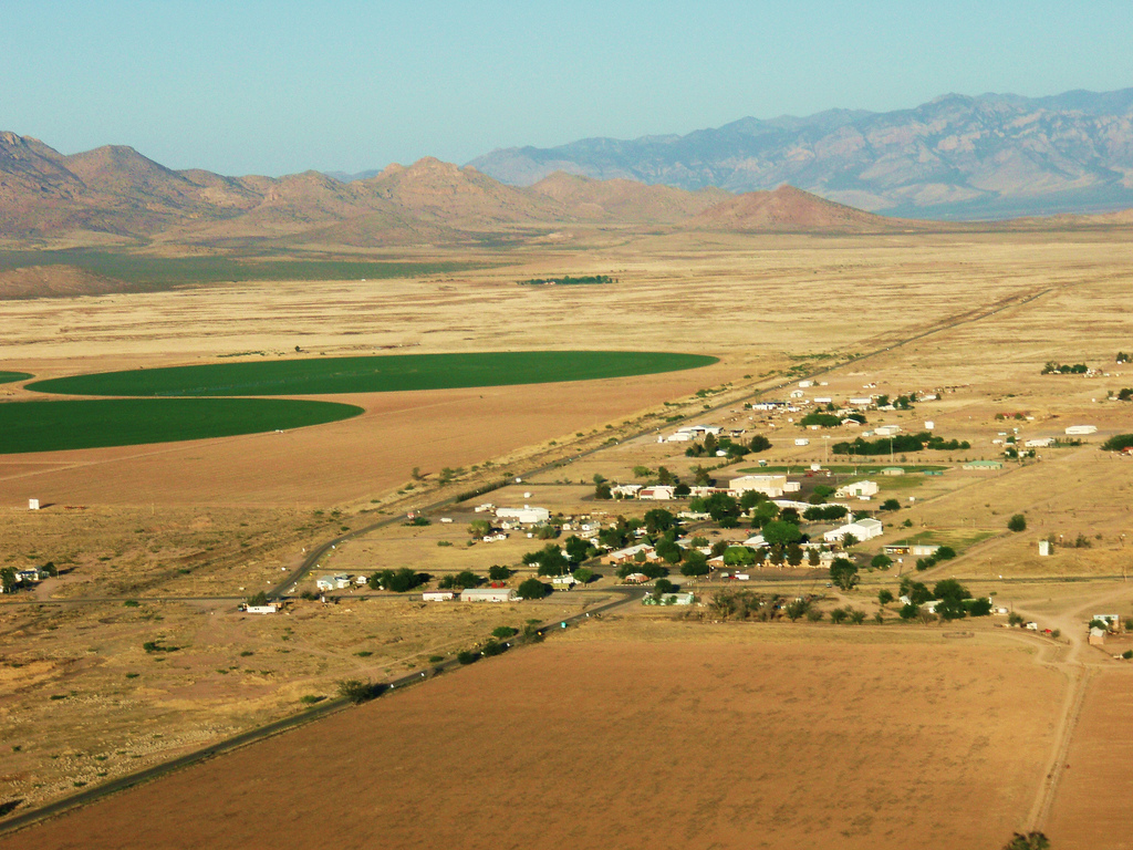 A low level aerial image of Animas and the Animas Valley — in Hidalgo County, New Mexico.